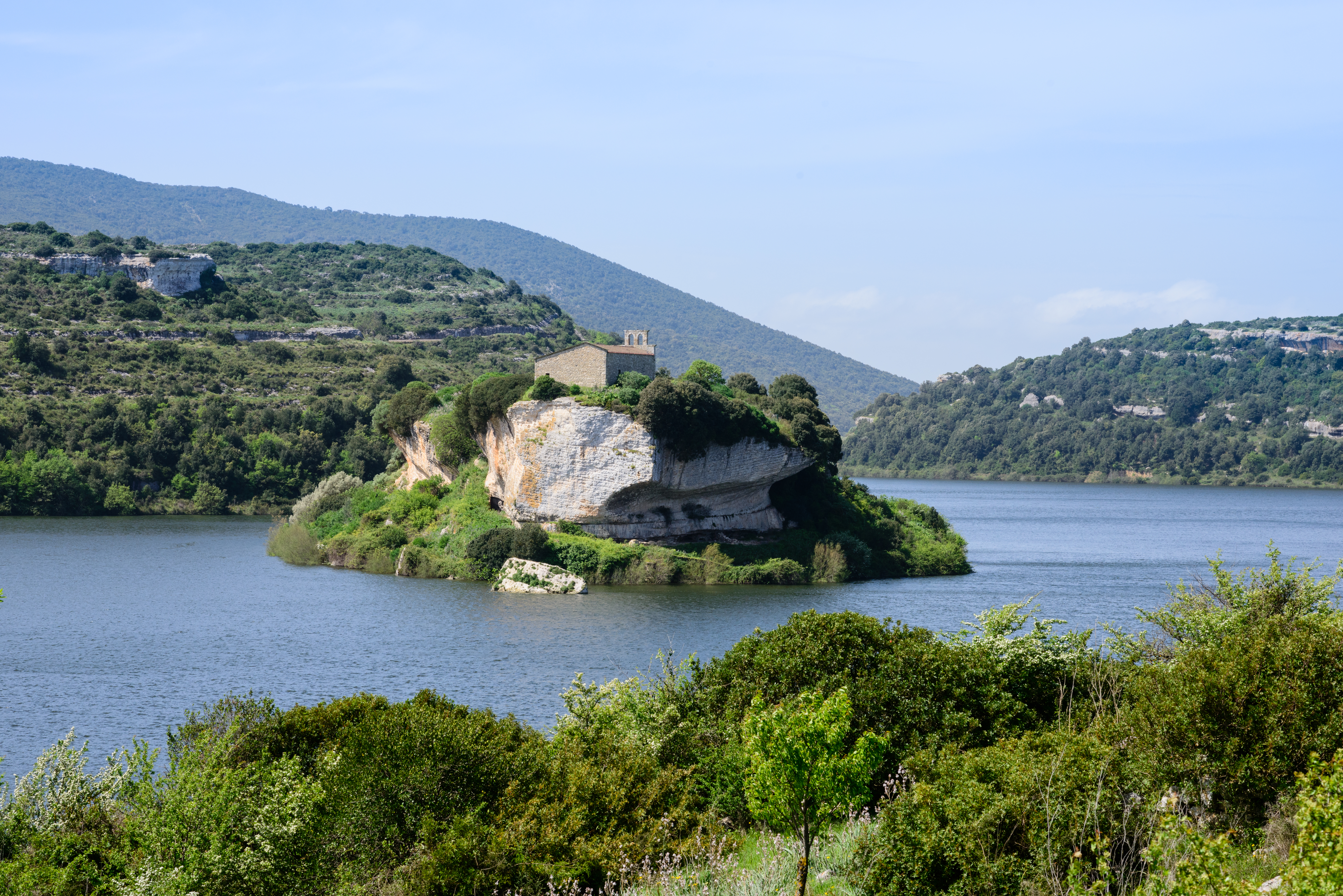 Lago Is Barrocus near Isili, Sardinia, Italy.